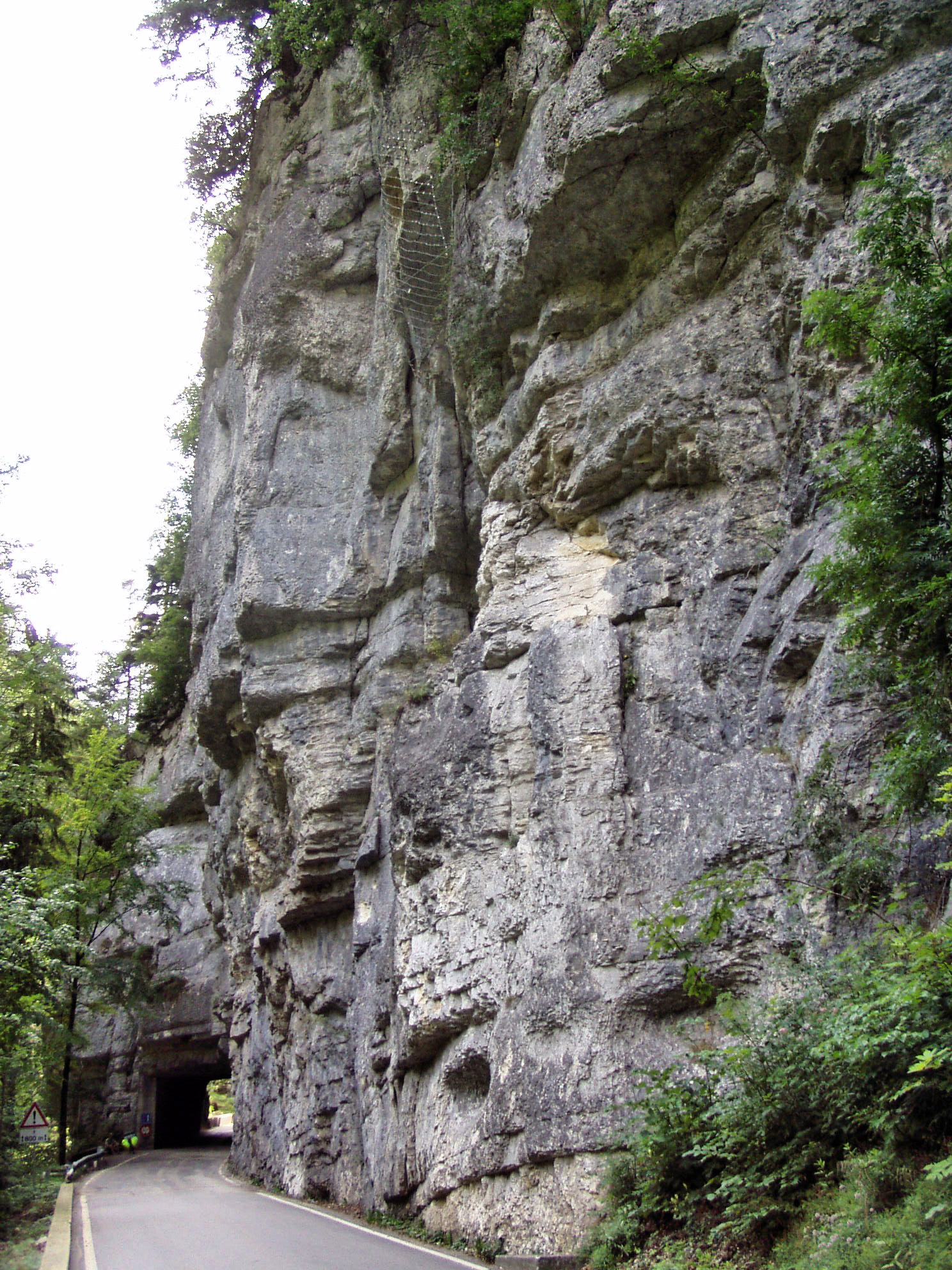 Road from Undervelier to Sornetan in Switzerland. Gorges du Pichou.